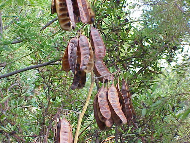 Species: Paraserianthes lophantha, syn. Albizia lophantha Family: Mimosaceae, syn. Fabaceae, subfamily Mimosoideae Image No. 1